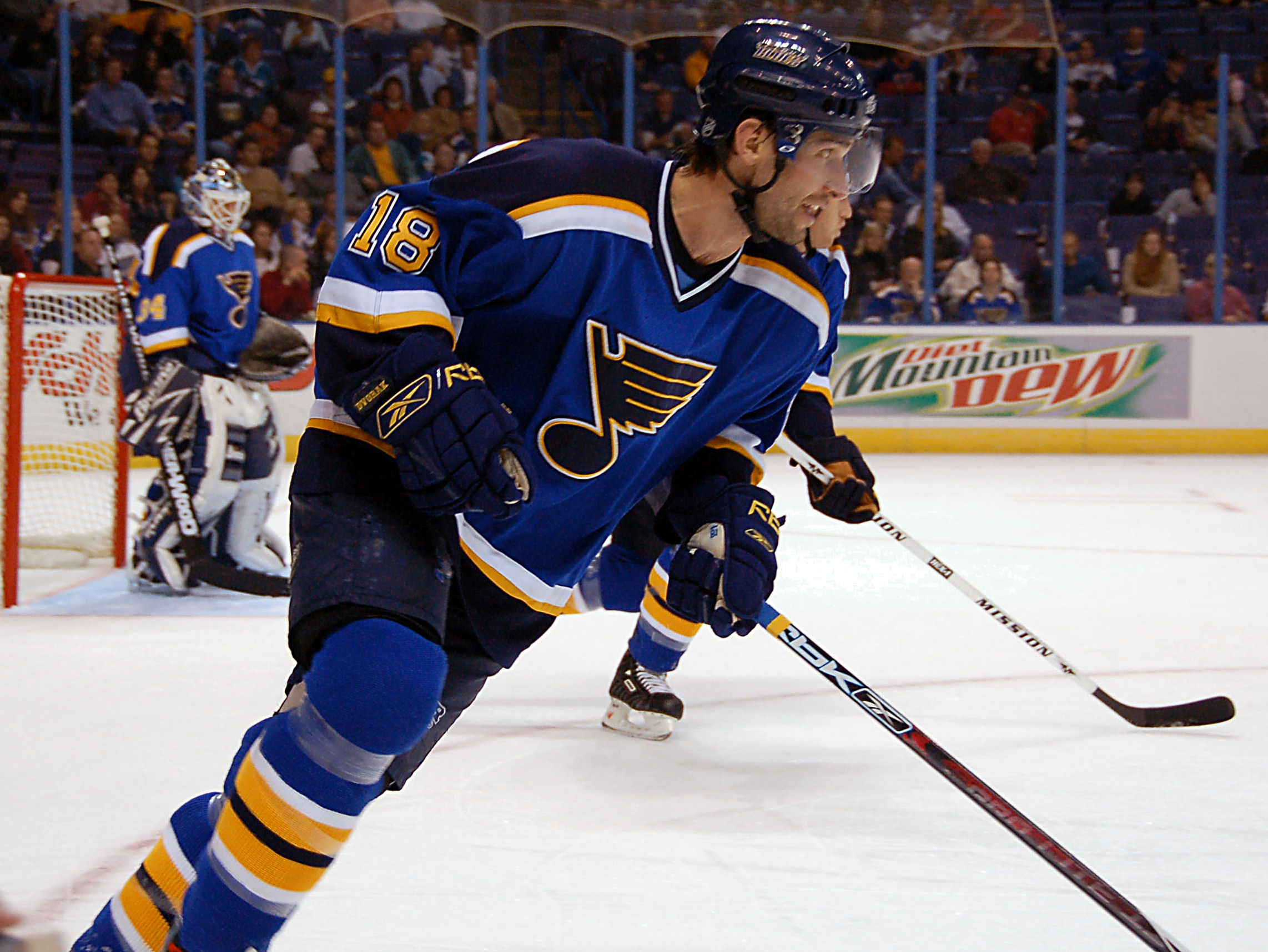 Radek Dvorak of St. Louis Blues, game vs. San Jose Sharks, November 28, 2006